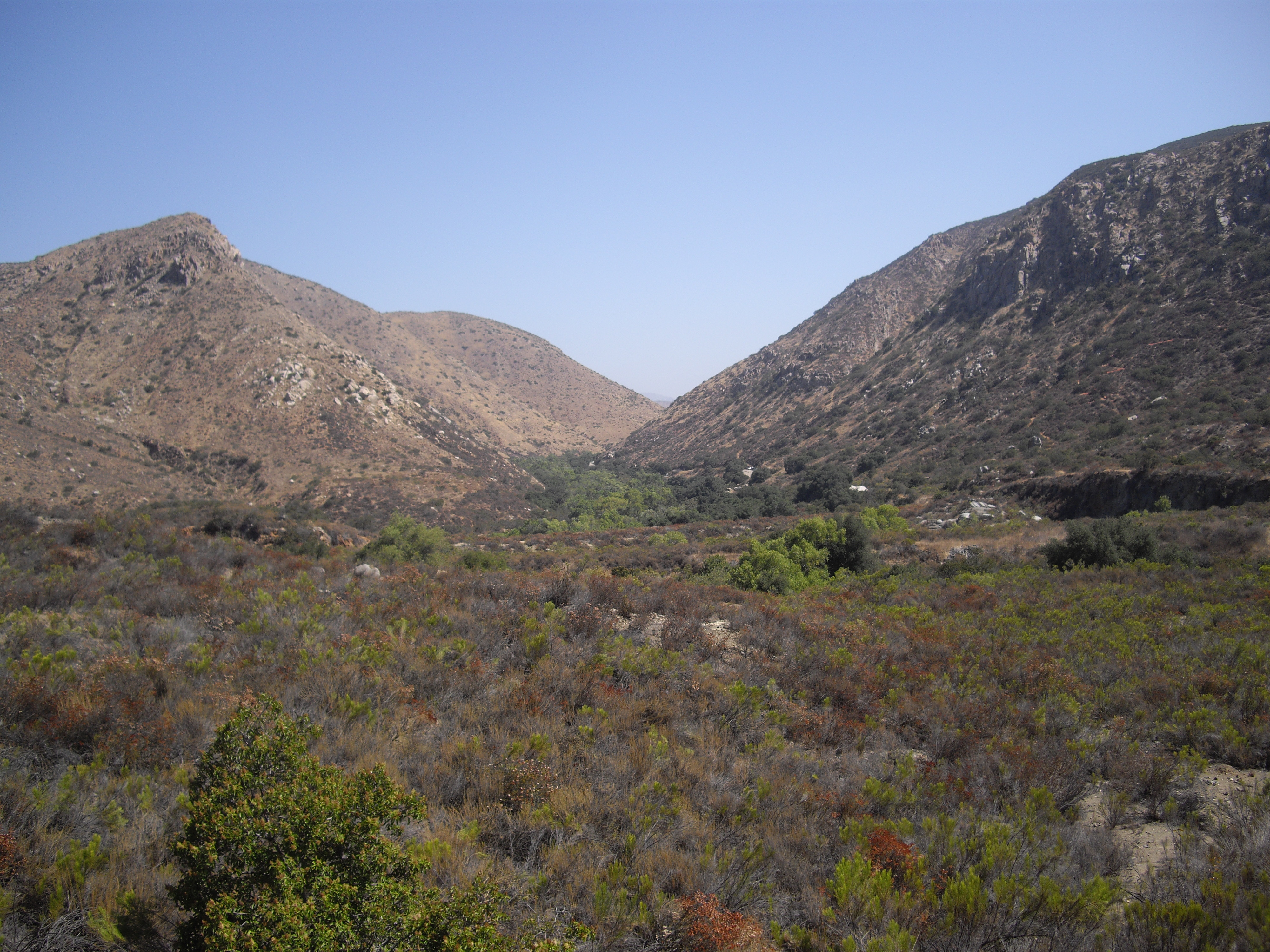 Mission Trails Regional Park, view towards gorge from visitors center. A large regional park in San Diego, Southern California. With California coastal sage and chaparral and riparian habitats.